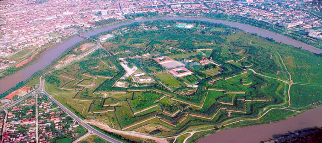 Air view of the Fortified Town of Arad (Romania, Arad Town), in the form of a shield with the Star of David in middle, with six corners, builded with three rows of underground pillboxes and several trenches which in past could be flooded. 01